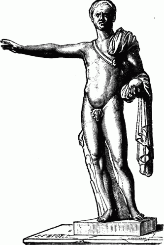 Colossal Statue of Pompeius of the Palazzo Spada of Rome